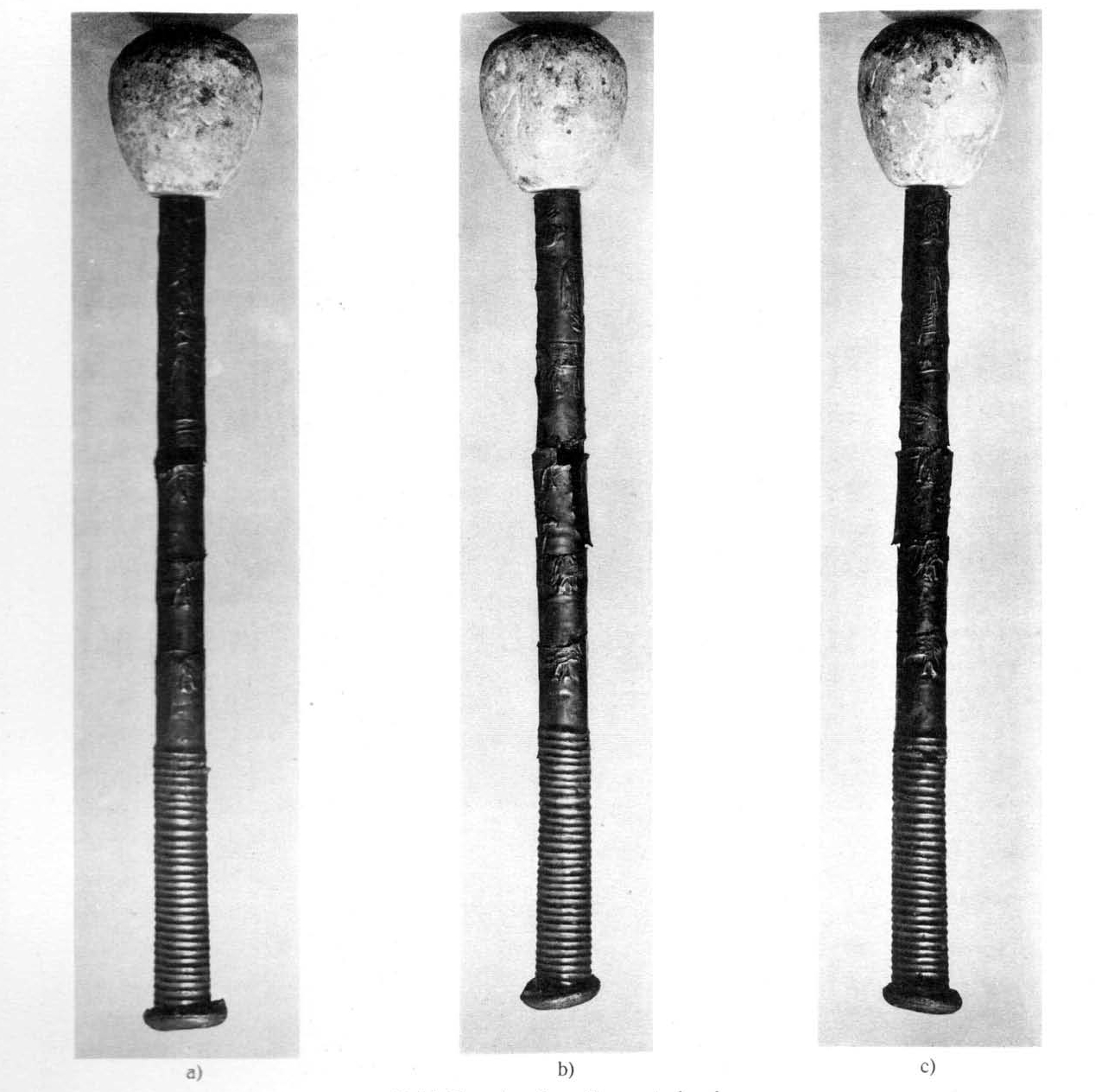 Photographs of the Sayala mace